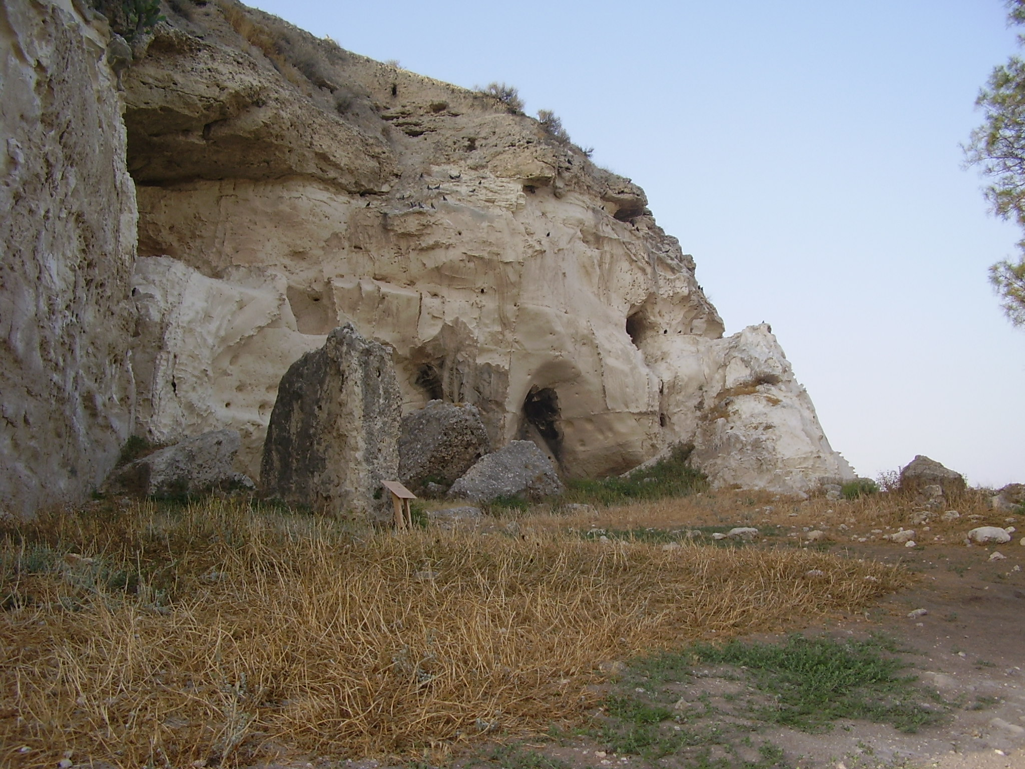 tel zafit (blanche garde)